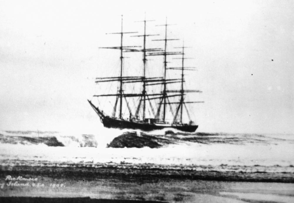 The German full rigged ship „Peter Rickmers“ ashore Long Islands.